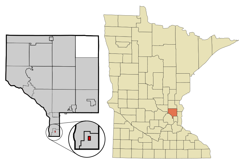 This map shows the incorporated and unincorporated areas in Anoka County, highlighting Hilltop in red. This file has been updated to reflect the recent incorporation of new municipalities.